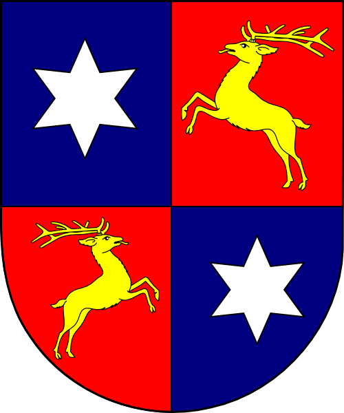 Coat of arms (shield only) of József Lonovics, bishop of Csanád, Hungary (1834 - 1848), archbishop of Eger, Hungary (1848 - 1850), archbishop of Kalocsa, Hungary (1866 - 1867). Based on frame of his painted portrait in Kalocsa.